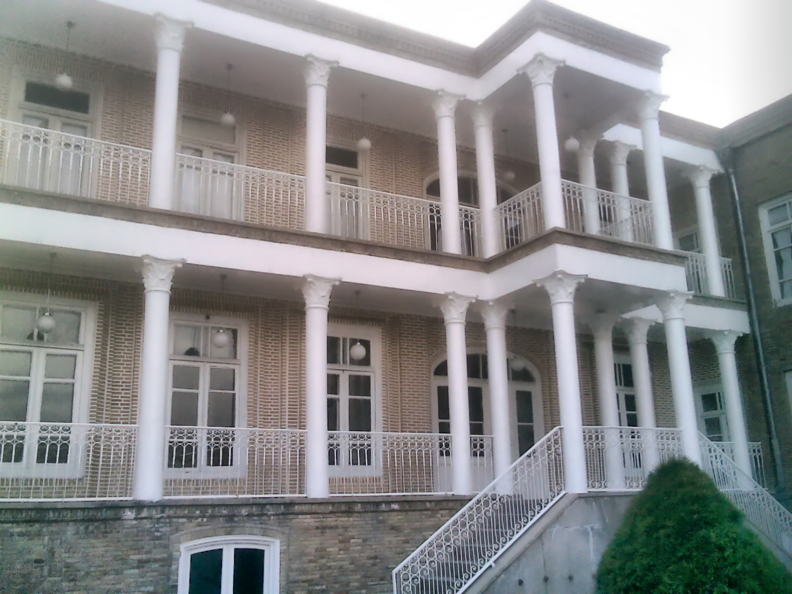 Description: This building with area of about 3000 sq. meters and two other houses; Ghadaki and Behnam, are administrated by Sahand University of Technology. Iran, Tabriz. Location: Maqsoudiye quarter Age: Qajar - Pahlavi the first